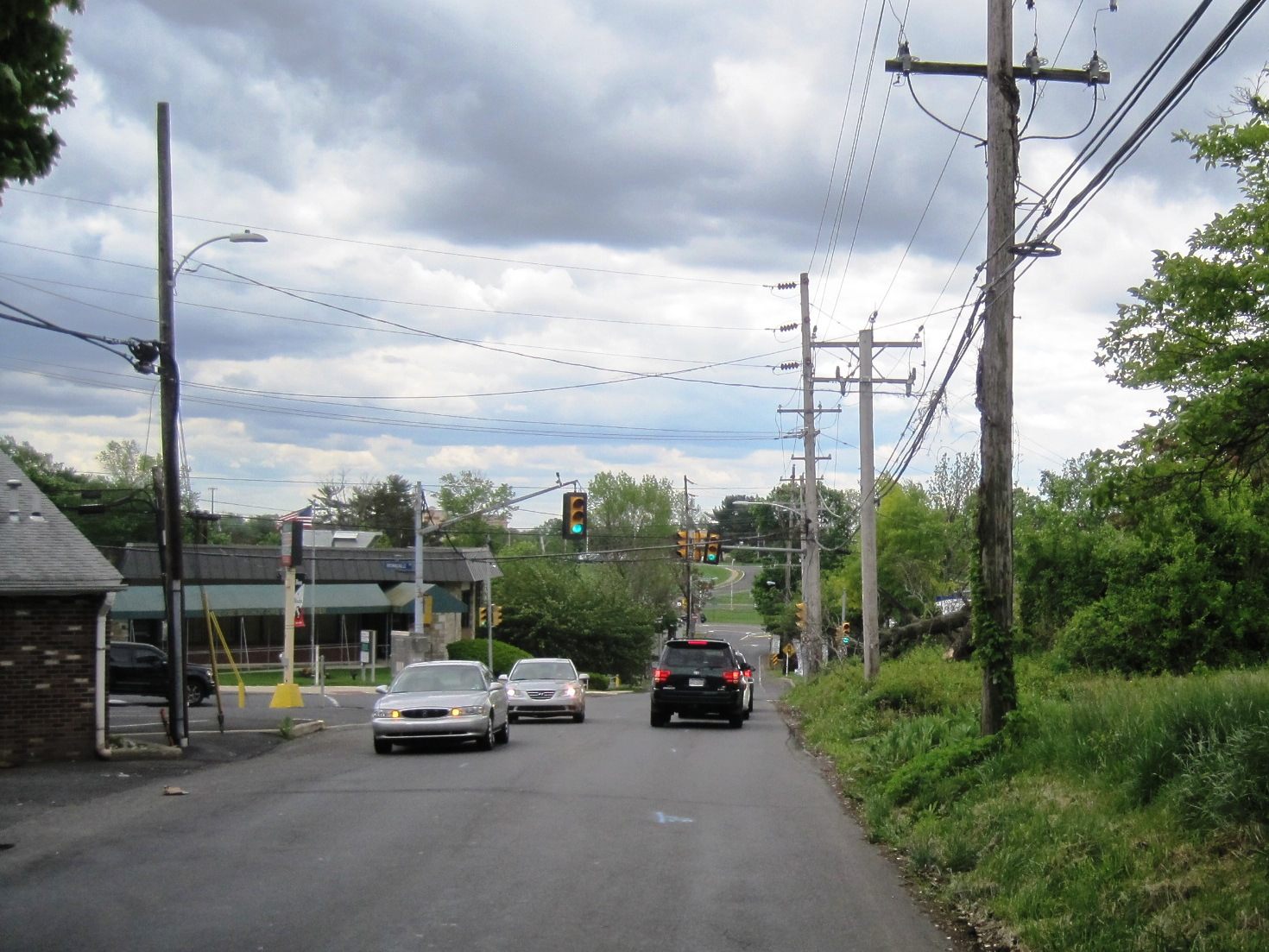 Photo showing Trevose, Pennsylvania, a census-designated place on the border of Bensalem Township (ahead) and Lower Southampton Township (behind) in Bucks County. Photo was taken along eastbound Old Street Road approaching Brownsville Road.